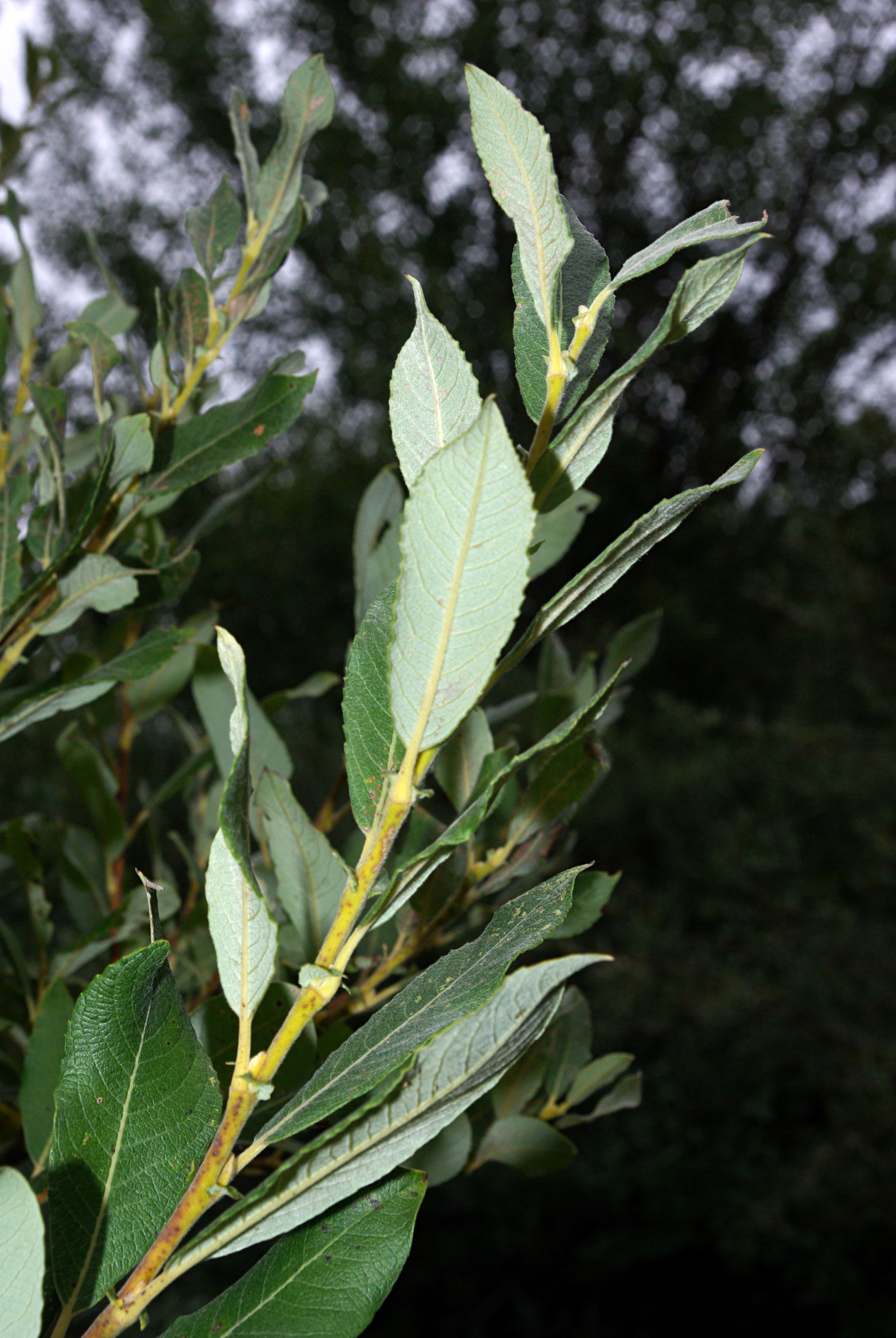 Leaves of Grey Willow Salix cinerea subsp. oleifolia (syn. Salix atrocinerea). León, Spain